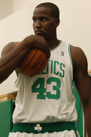 Display of Kendrick Perkins of the Boston Celtics at NBA Media Day on September 28, 2007.